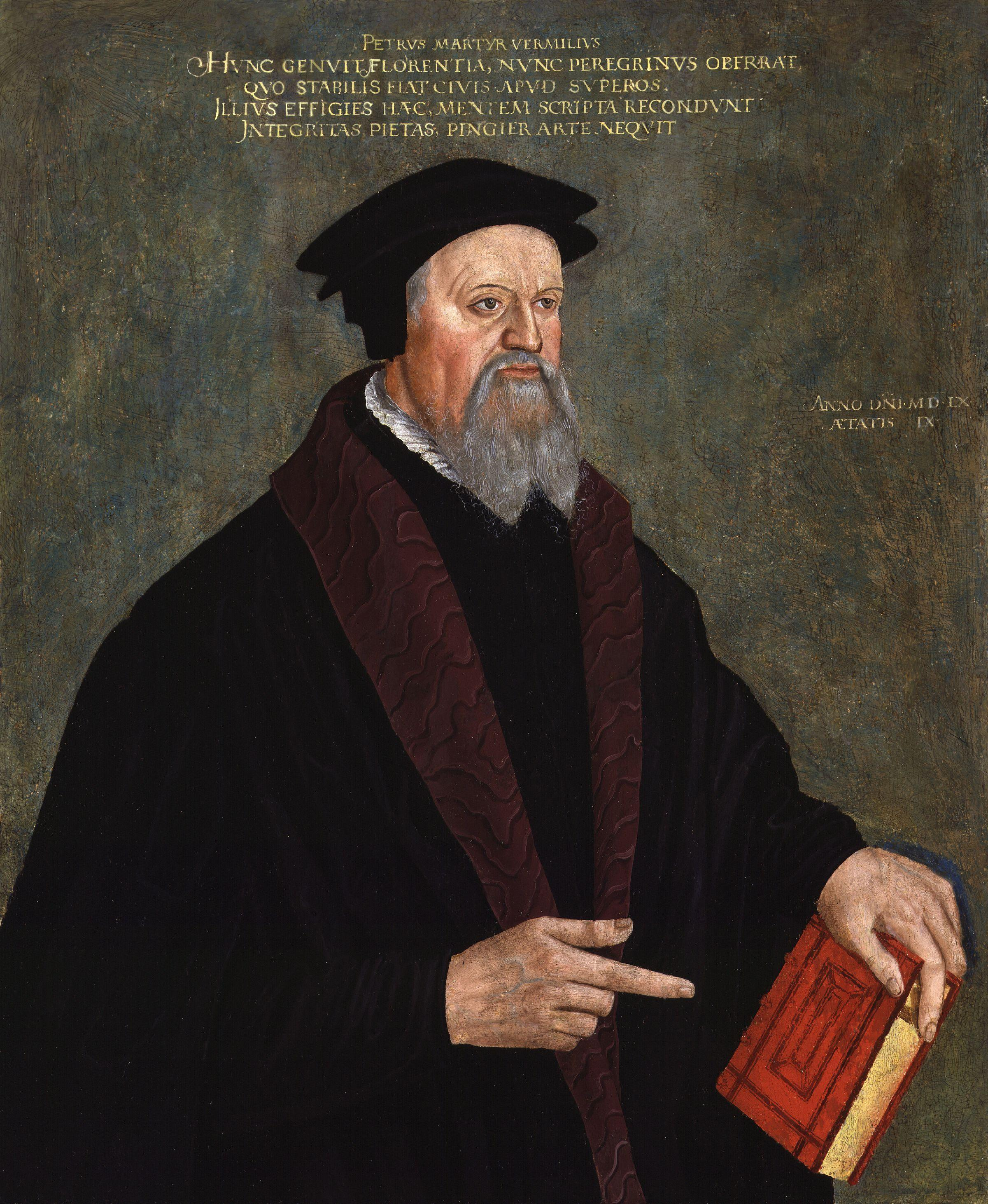 The painting contains a tetrastich inscribed above Vermigli's head that reads: HVNC GENVIT FLORENTIA, NVNC PEREGRINVS OBERRAT, QVO STABILIS FIAT CIVIS APVD SVPEROS ILLIVS EFFIGIES, MENTVM SCRIPTA RECONDVIT INTEGRITIS PIETAS PINGIER ARTE NEQVIT. "Florence brought him forth, Now he wanders as a foreigner/That he might forever be a citizen among those in heaven./This is his likeness; but a painting cannot reveal his heart/for integrity and piety cannot be represented by art."[1]